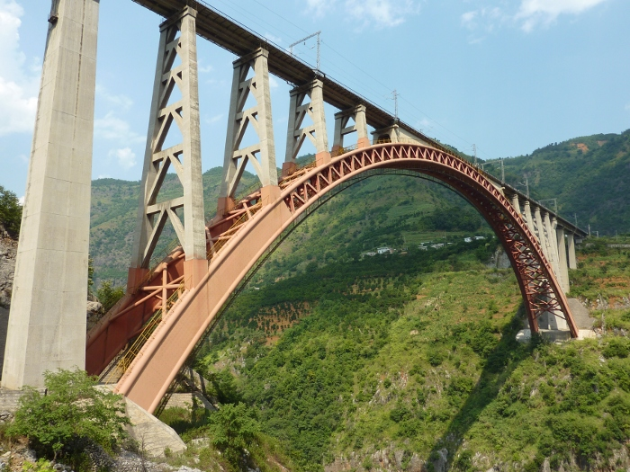 The Beipanjiang Railway Bridge in Guizhou province, China